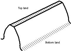 Top land